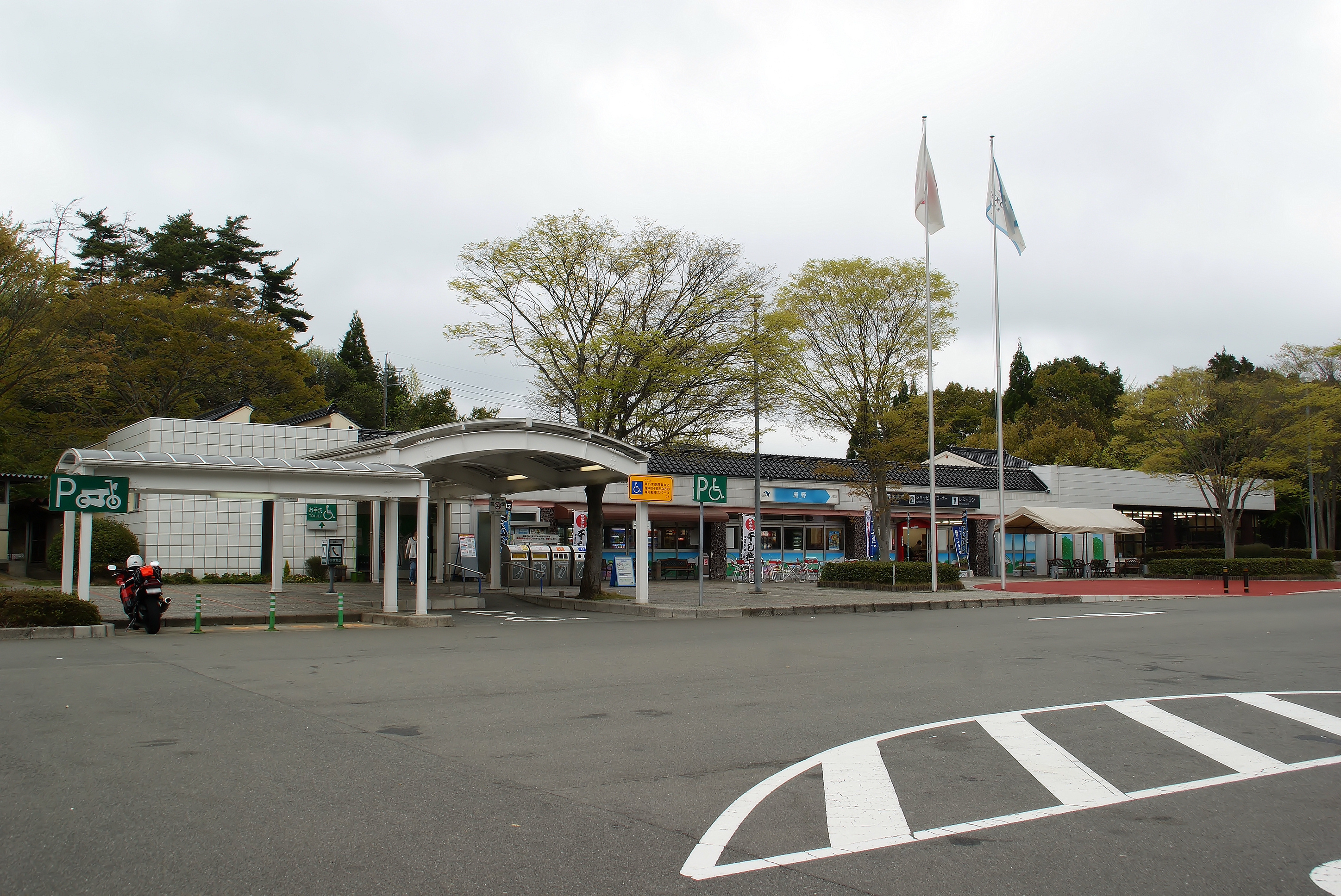 Chugoku Expressway, Kano Service Area.(Shunan City, Yamaguchi Prefecture, Japan)